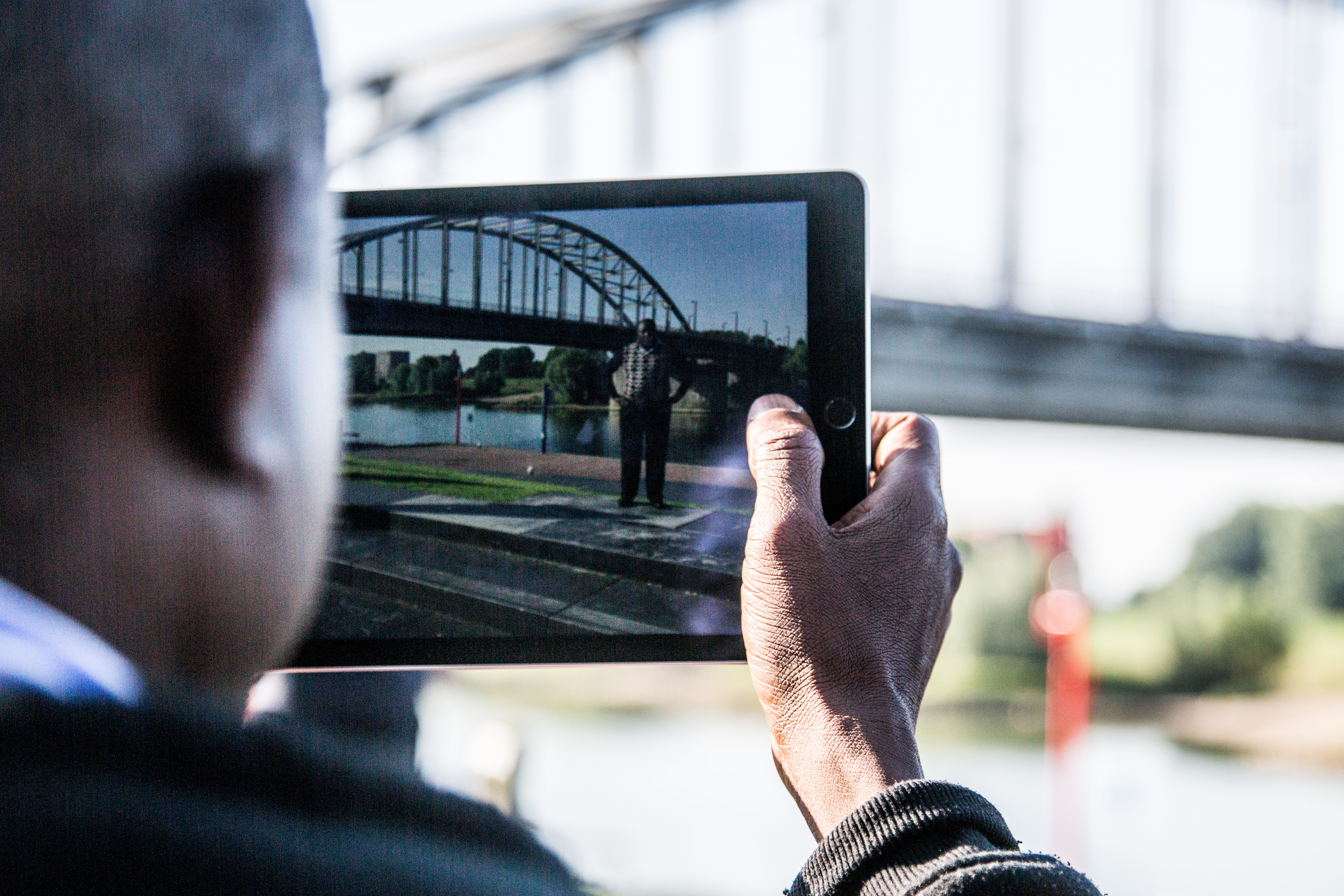 A pair of African service members take a picture in Arnhem, the Netherlands, in front of the John Frost Bridge, during Western Accord 15’s cultural day, July 26, 2015. Western Accord 15 is a command post exercise in the Netherlands from July 20-31, 2015. Western Accord 15 replicates the Multidimensional Integrated Stabilization Mission in Mali, Sector Headquarters mission command in support of United Nation and African Union mandated peacekeeping operations. (U.S. Army photo by: Sgt. Marcus Fichtl, 24th Press Camp) Unit: 24th Press Camp Headquarters DVIDS Tags: Africa; culture; 15; 1st Armored Division; U.S. Army; Nijmegen; Operation Market Garden; 2015; cultural day; Western Accord; ECOWAS; 3rd Armored Brigade Combat Team; Sgt. Marcus Fichtl; Arnhem; Economic Community of Western African States